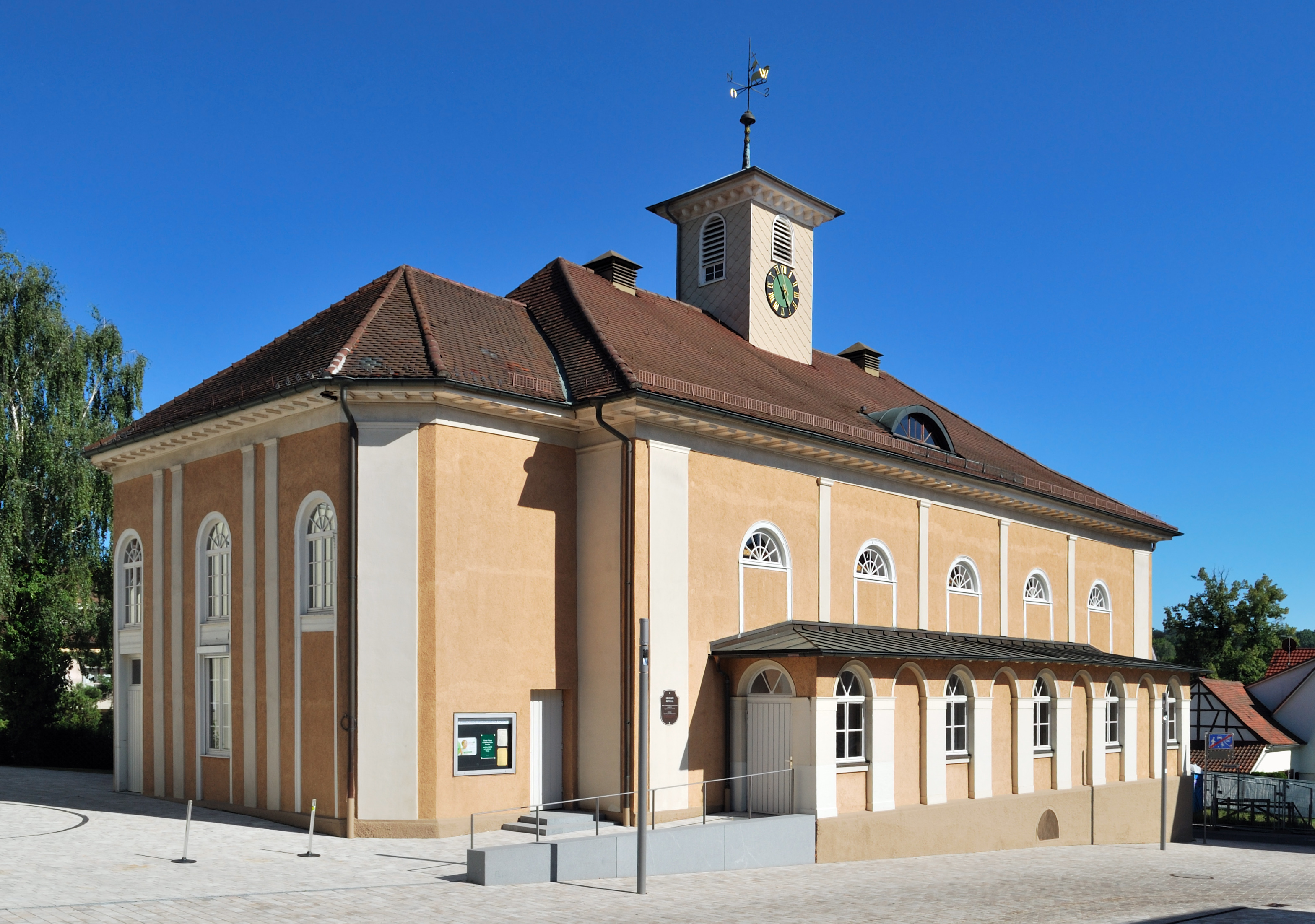 Grosser Betsaal (The Grand Prayer Room) of the protestant church Brüdergemeinde in Korntal in the German Federal State Baden-Württemberg.